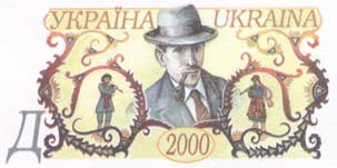 Stamp of Ukraine